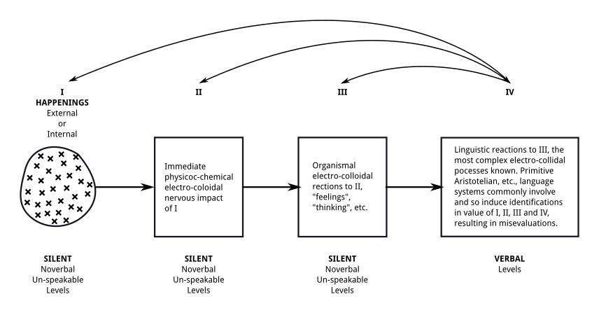 Teaching diagram used by Institute of General Semantics circa 1946.